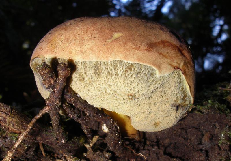 Gastroboletus turbinatus (Snell) A.H. Smith & Singer Location: Florence, Oregon, USA Observation Notes: [admin – Sat Aug 14 02:00:27 0000 2010]: Changed location name from ‘Florence, OR’ to ‘Florence, Oregon, USA’ For more information about this, see the observation page at Mushroom Observer.